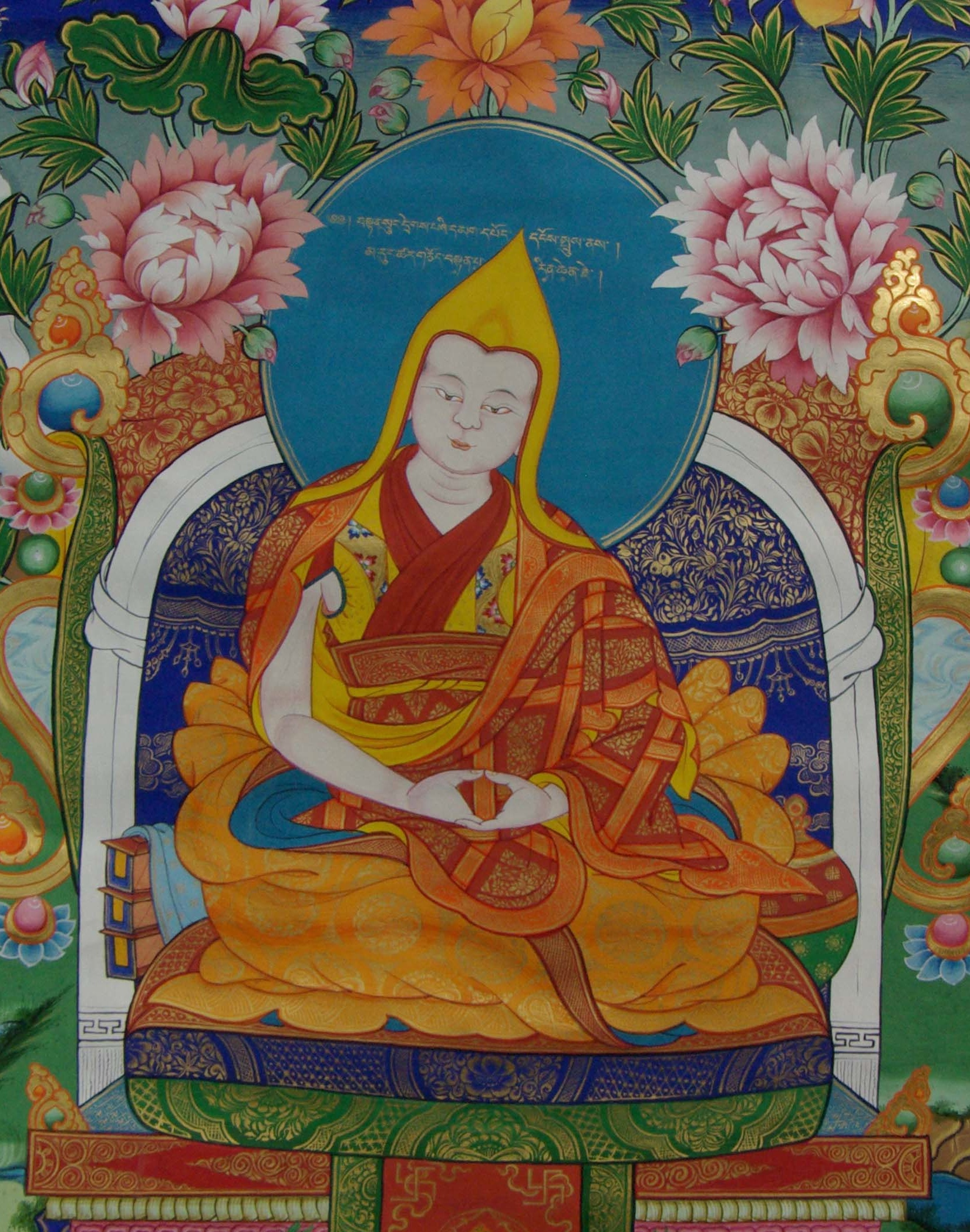 The Second Kirti, Tenpa Rinchen b.1474 - d.1558